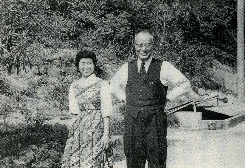 Photograph of the sociologist Lucie Cheng with her father, the journalist Cheng She-wo, at Shi Hsin University, Taibei, around the time of its founding (1956).